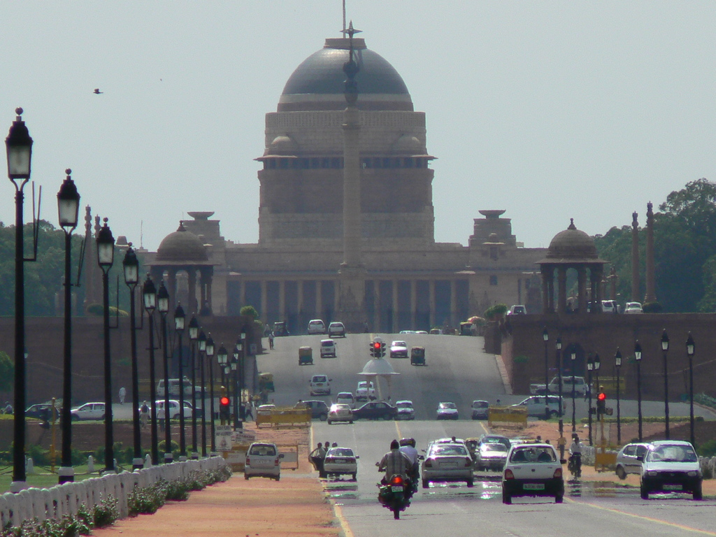 Rajpath, Delhi